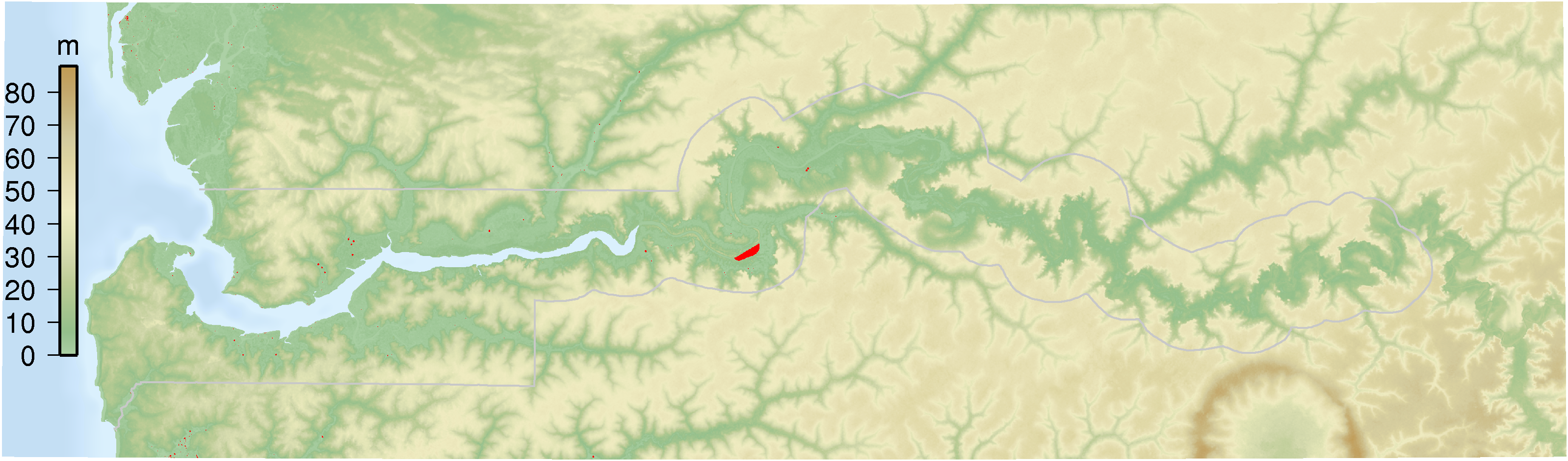 topographic map of Gambia, in preparation, Don't use yet!!!